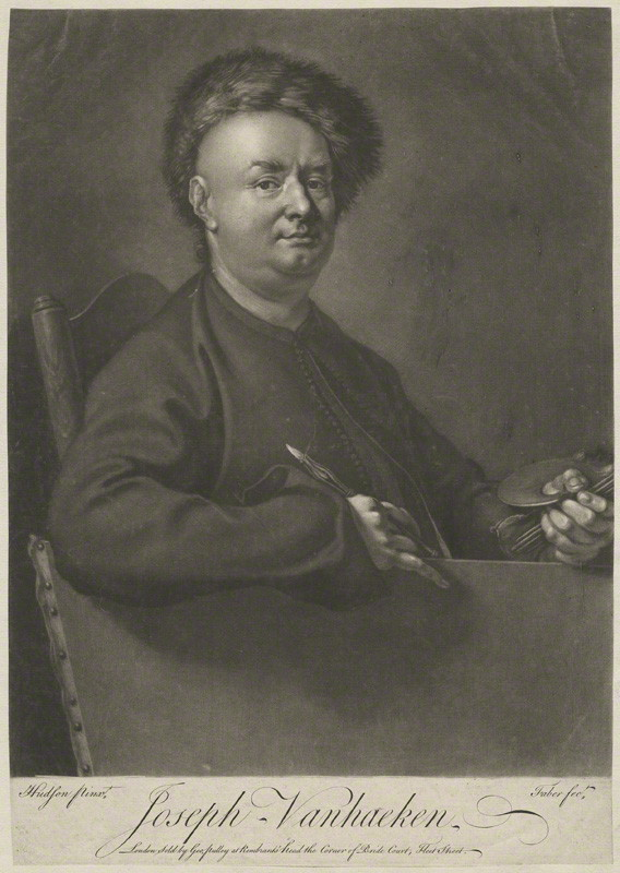 Joseph van Aken